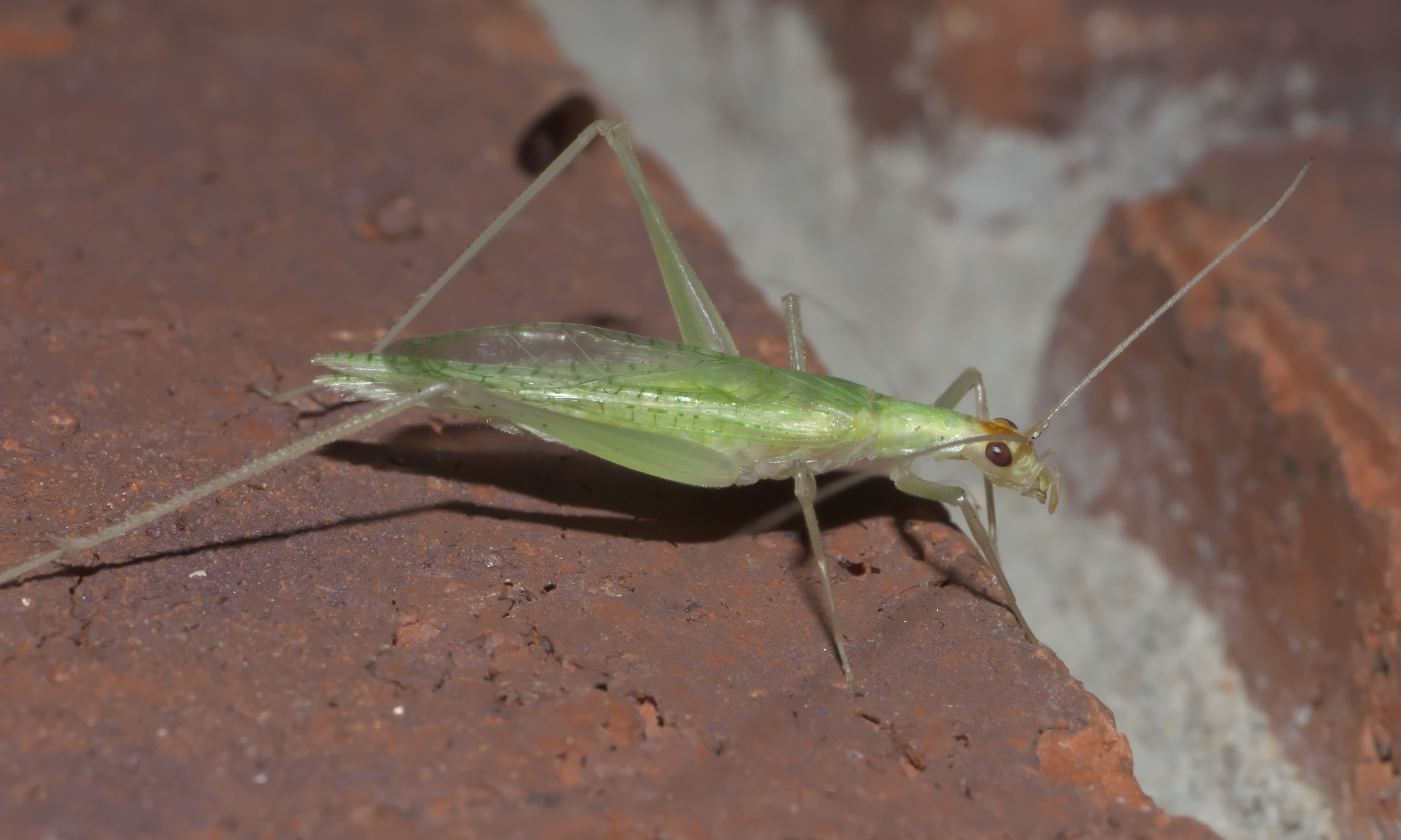 Oecanthus niveus, Narrow-winged Tree Cricket, ID Confidence: 88